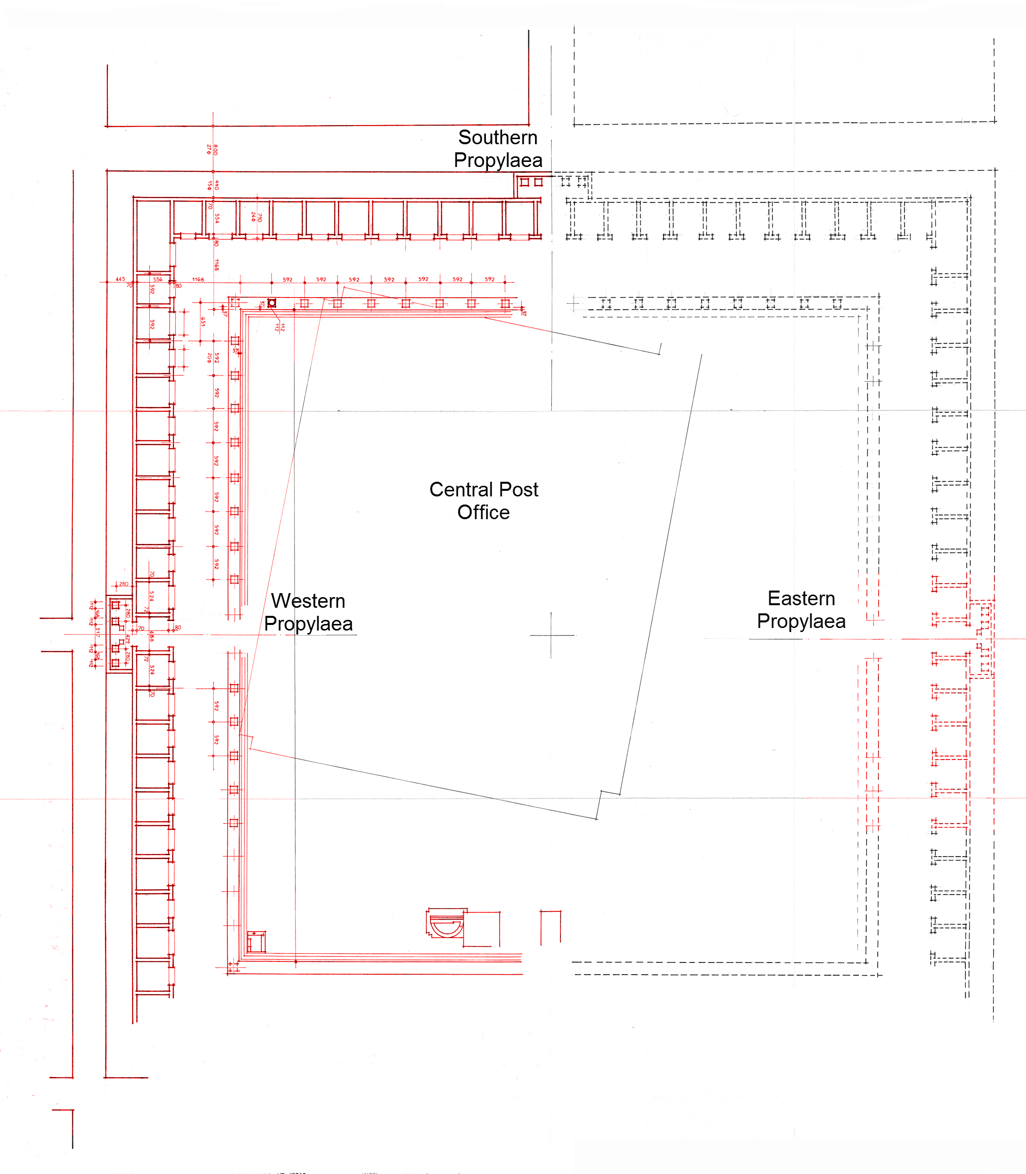 Plan of the Forum in Plovdiv based on drawings from the archive of NIICH made by arch. V.Kolarova, arch.N.Buchkova, arch. R.Proykova in June 1985. Legend: The discovered areas are covered in red